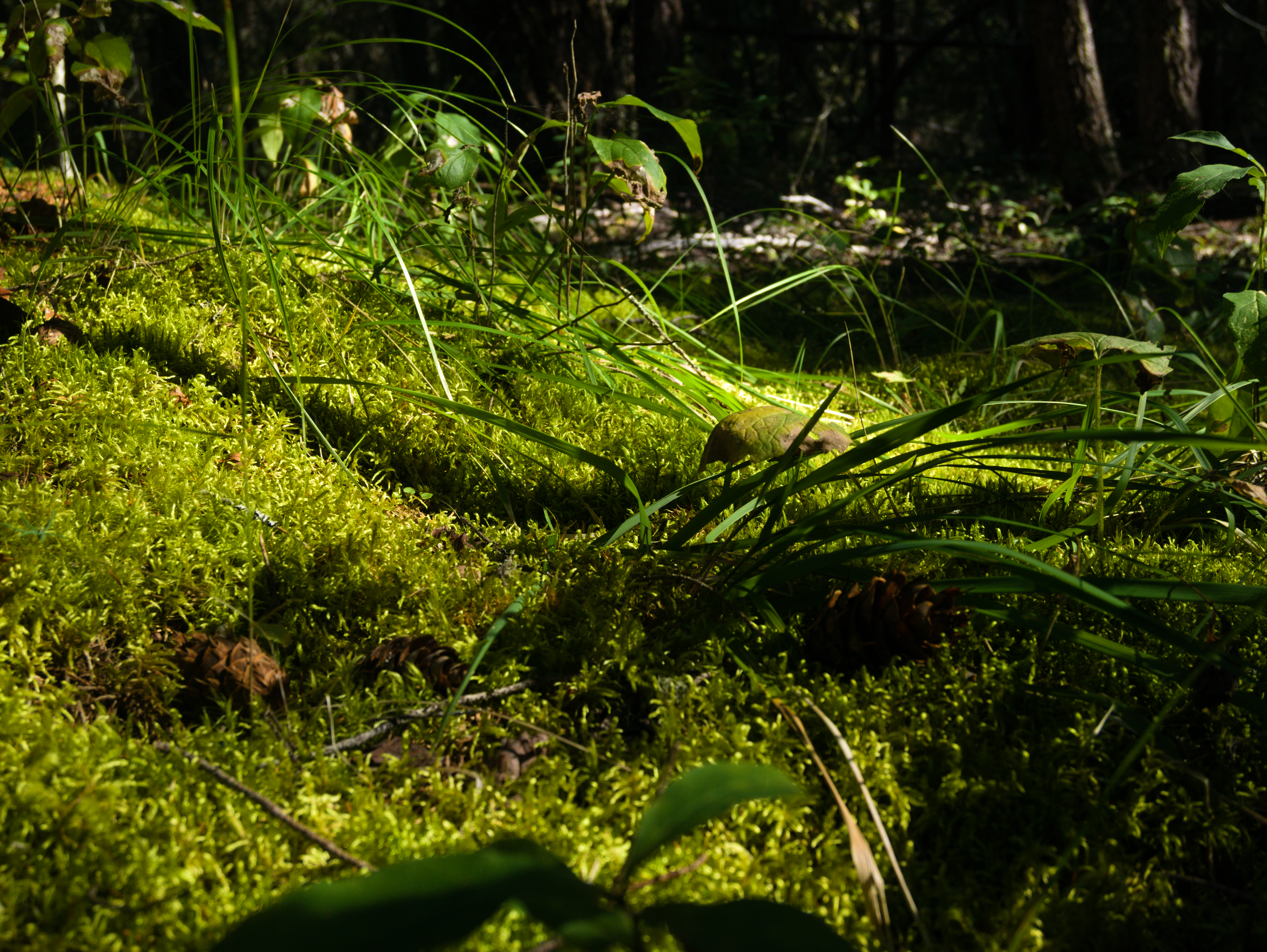 Mosses, Lichens, and Grasses sparkle on the forest floor in Lac La Hache Provincial Park, British Columbia, Canada